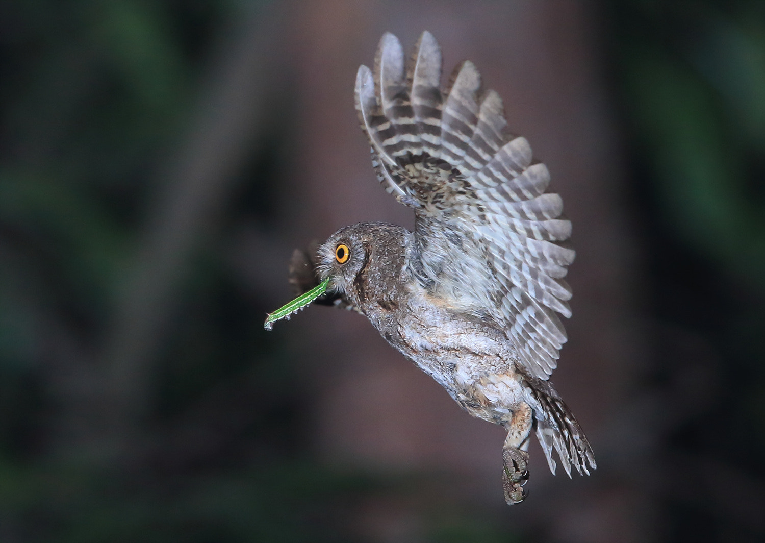 500px provided description: Baby dinner [#Bird ,#Animal ,#Korea ,#Owl ,#Lim yangmook ,#???]